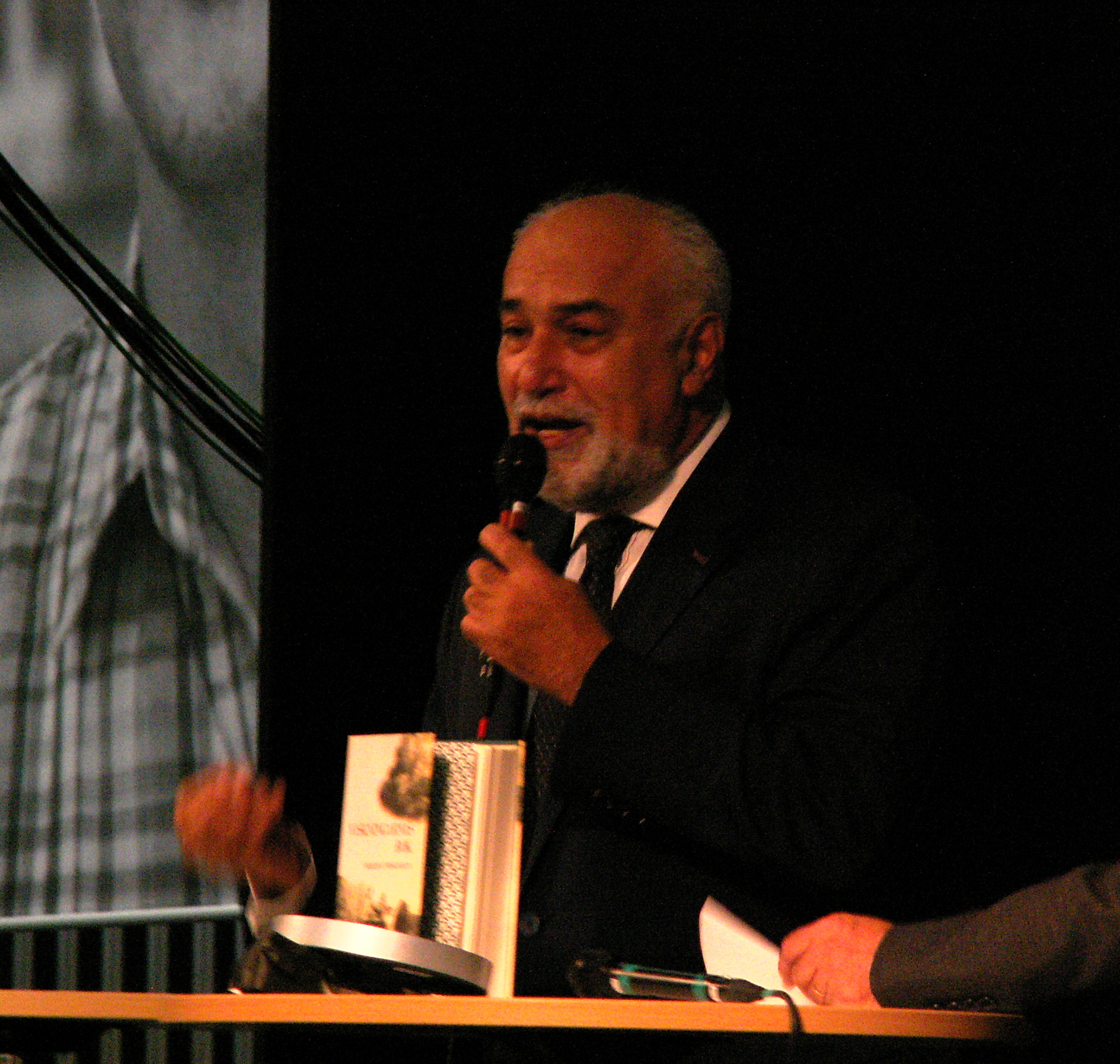 Varujan Vosganian at the Göteborg Book Fair 2013. Interviewed by Ingemar Nilsson.